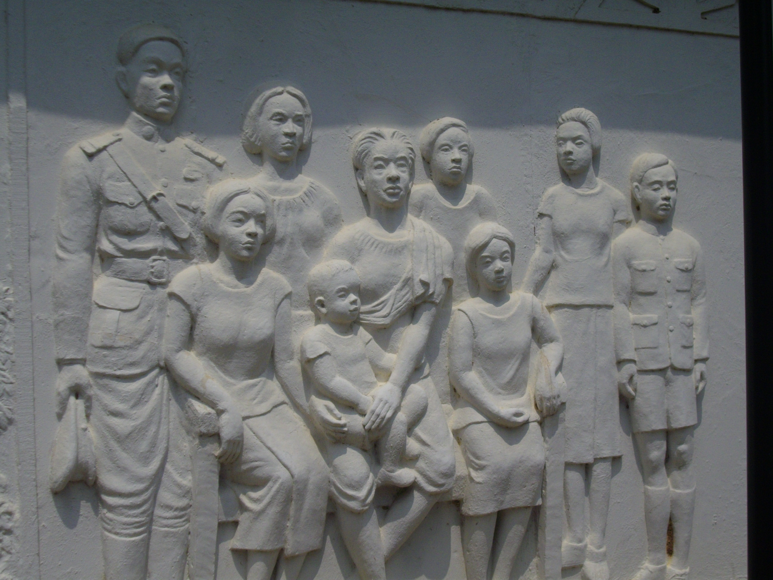 Relief of the life of Sarit Dhanarajata in his monument in Khon Kaen, Thailand, show his early life.